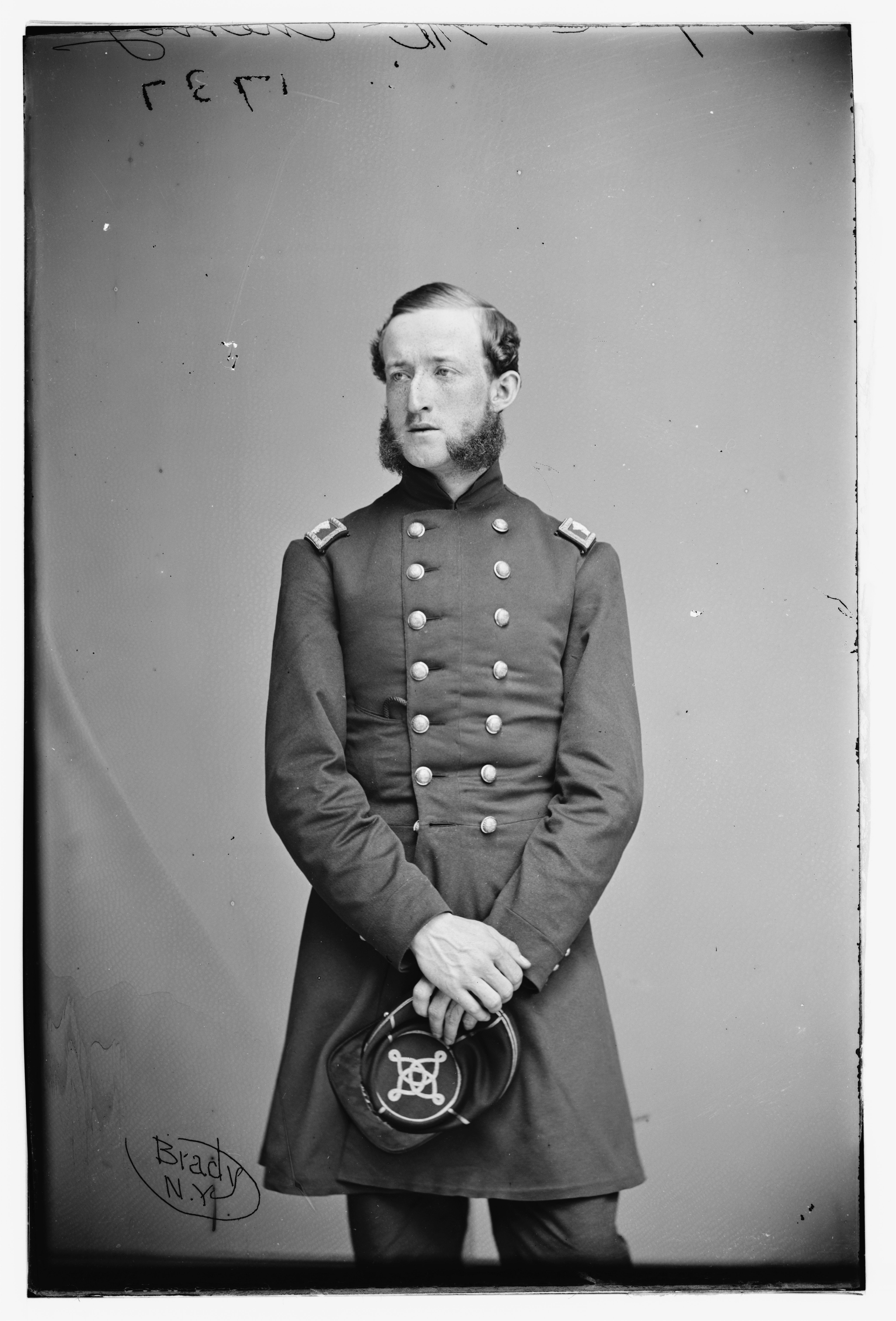 Title: Col. W.W. McChesney, 10th N.Y. Inf. Physical description: 1 negative